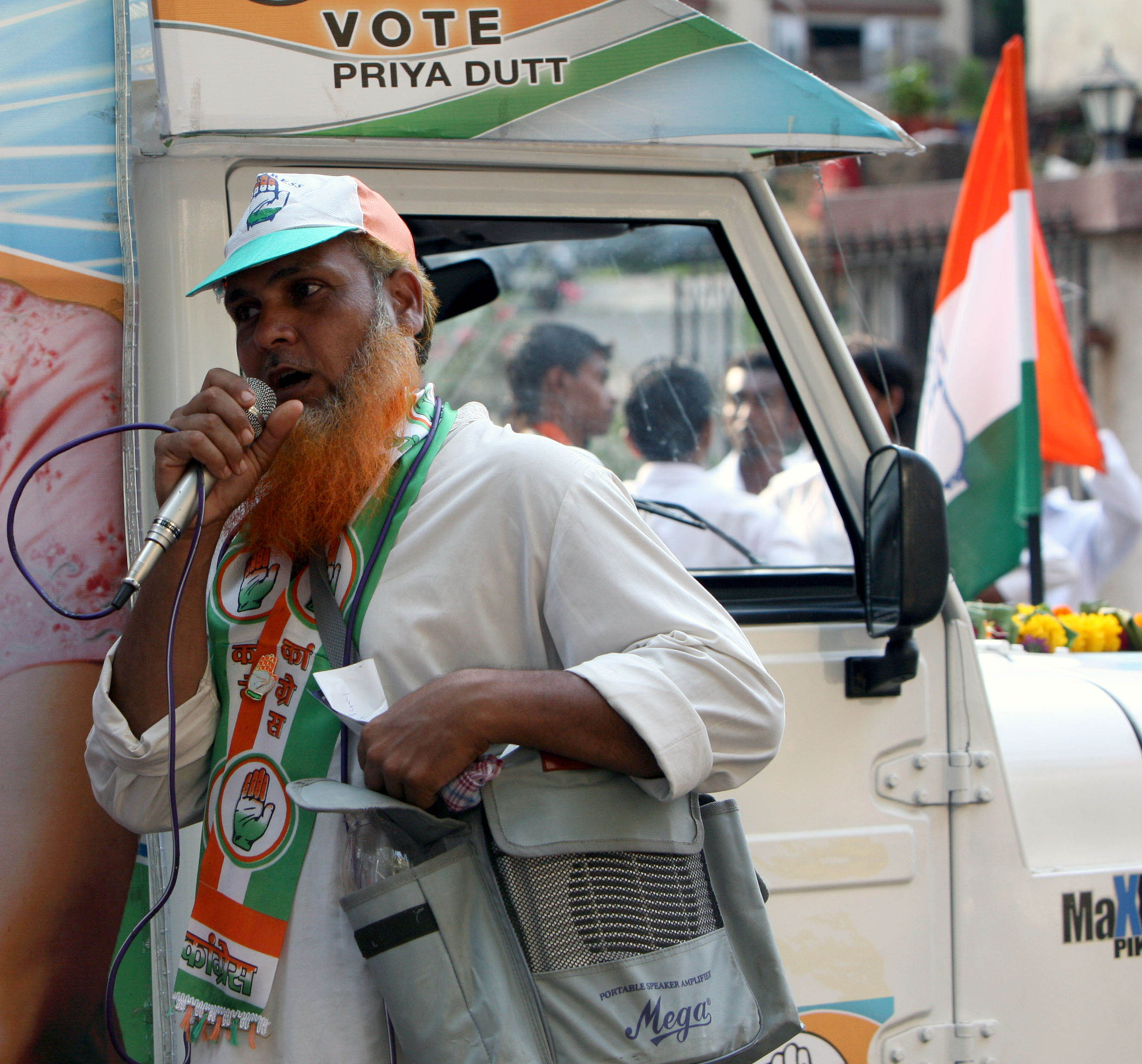 A party volunteer urges Indians to vote for Priya Dutt, daughter of actor/politician Sunil Dutt.